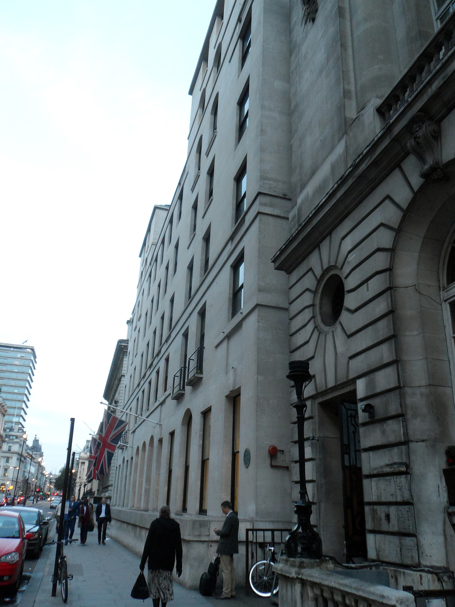 Frederick Winsor 1763-1830 gave the world's first demonstration of street lighting by coal gas from a retort located here June 1807 - 100 Pall Mall, St. James's, London SW1Y 5NQ